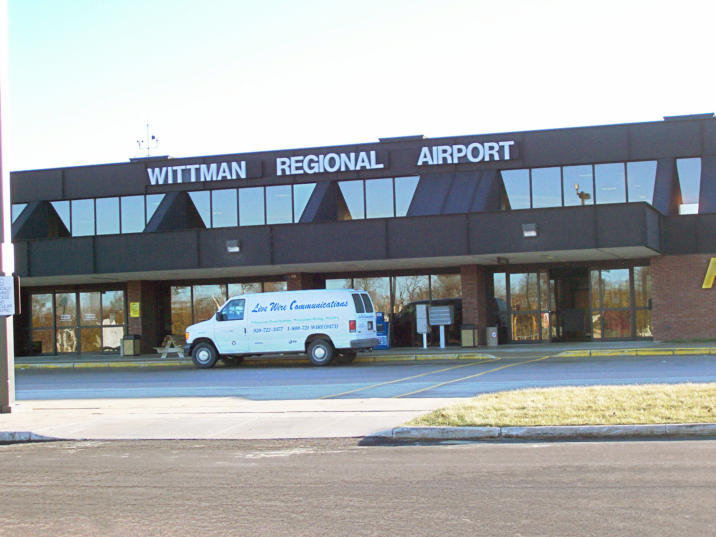 The Wittman Regional Airport building in Oshkosh, Wisconsin, USA.